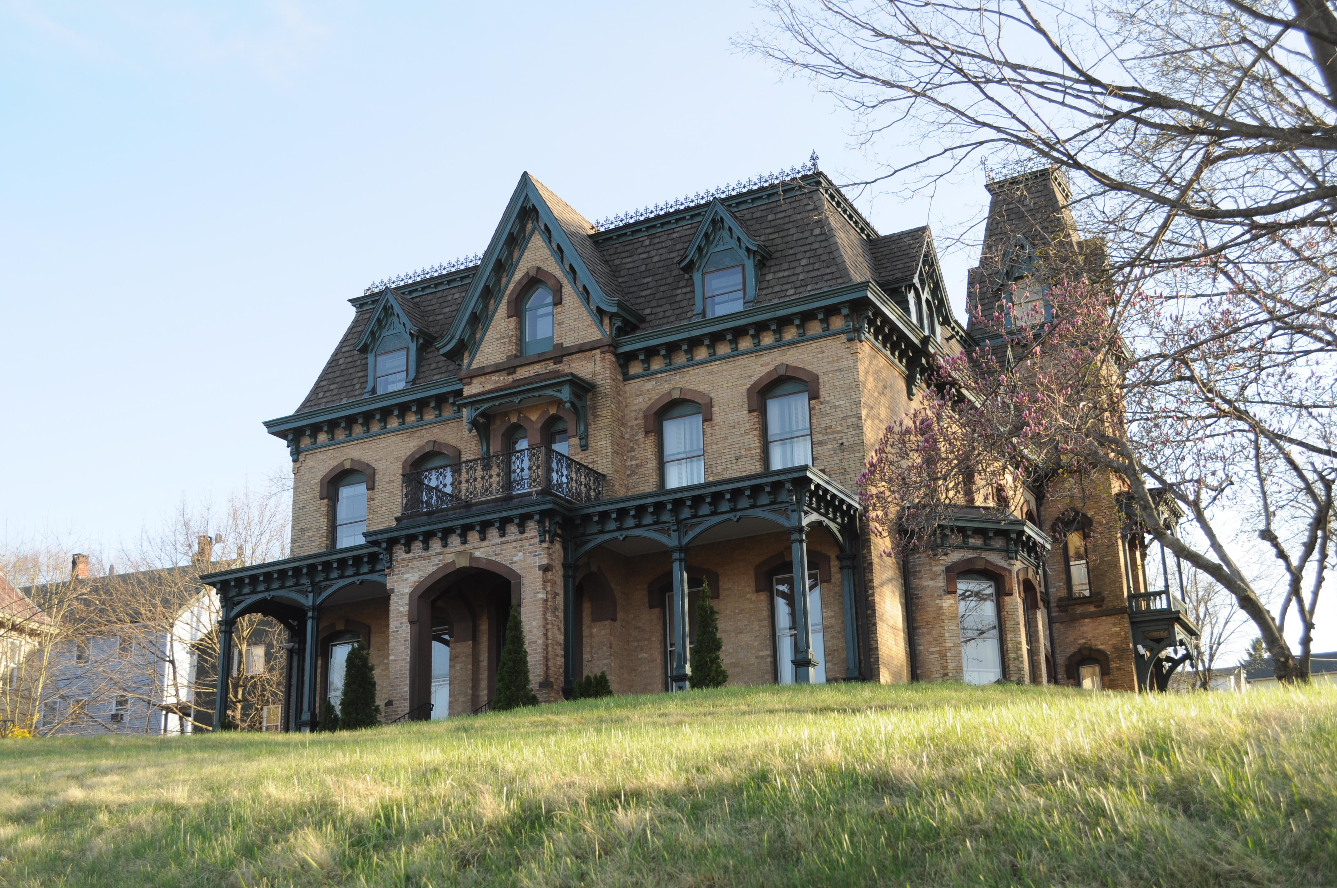 This mansion at 189 E. Main Street in Meriden, CT, USA was, for many years until 2007, the Szymaszek-Taylor Funeral Home. It was then purchased by the Islamic Association of Southern Connecticut, and was authorized by the city in January 2012 to be used mosque.